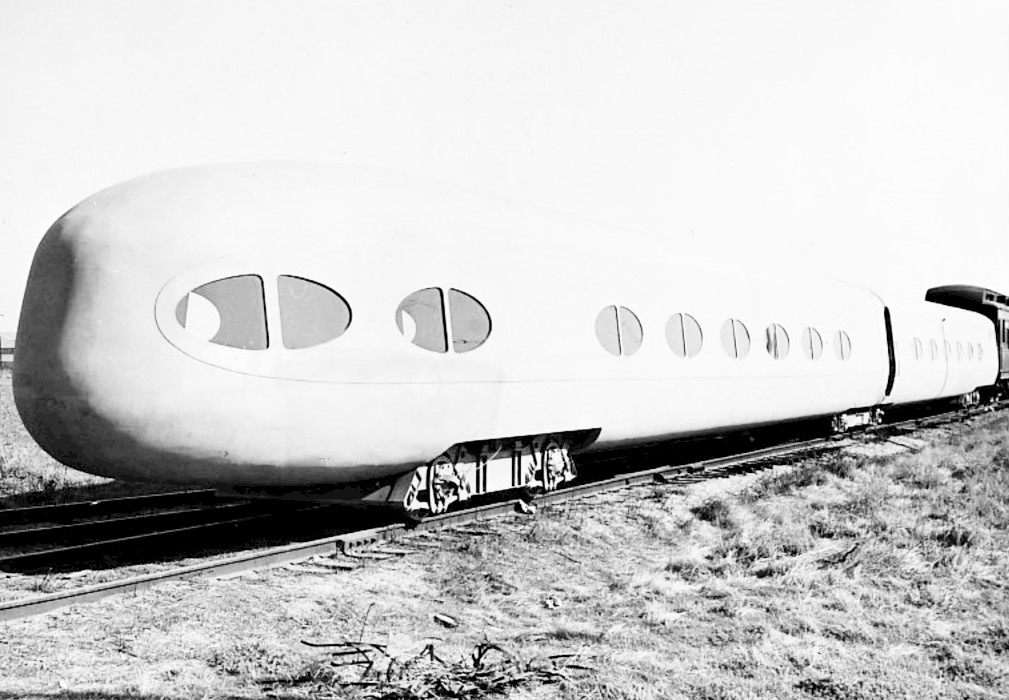 Photo of a railroad pendulum car designed and built by Cortlandt Hill, who was the grandson of Great Northern Railway president James Hill. Two experimental coaches were built--pendulum cars eventually would up on the Burlington, Santa Fe and Great Northern, but not to the extent that coaches like the Vista Dome were. Train Orders posts 1938 Time magazine story Life May 20, 1940, pages 41 & 42 Popular Mechanics July 1945 p 5-Burlington pendulum car Popular Mechanics October 1938 p. 488. City of Vancouver Archives Burlington's Silver Pendulum ibid None of the photos at the links are in the public domain, so this is apparently the only PD photo of one of the cars.